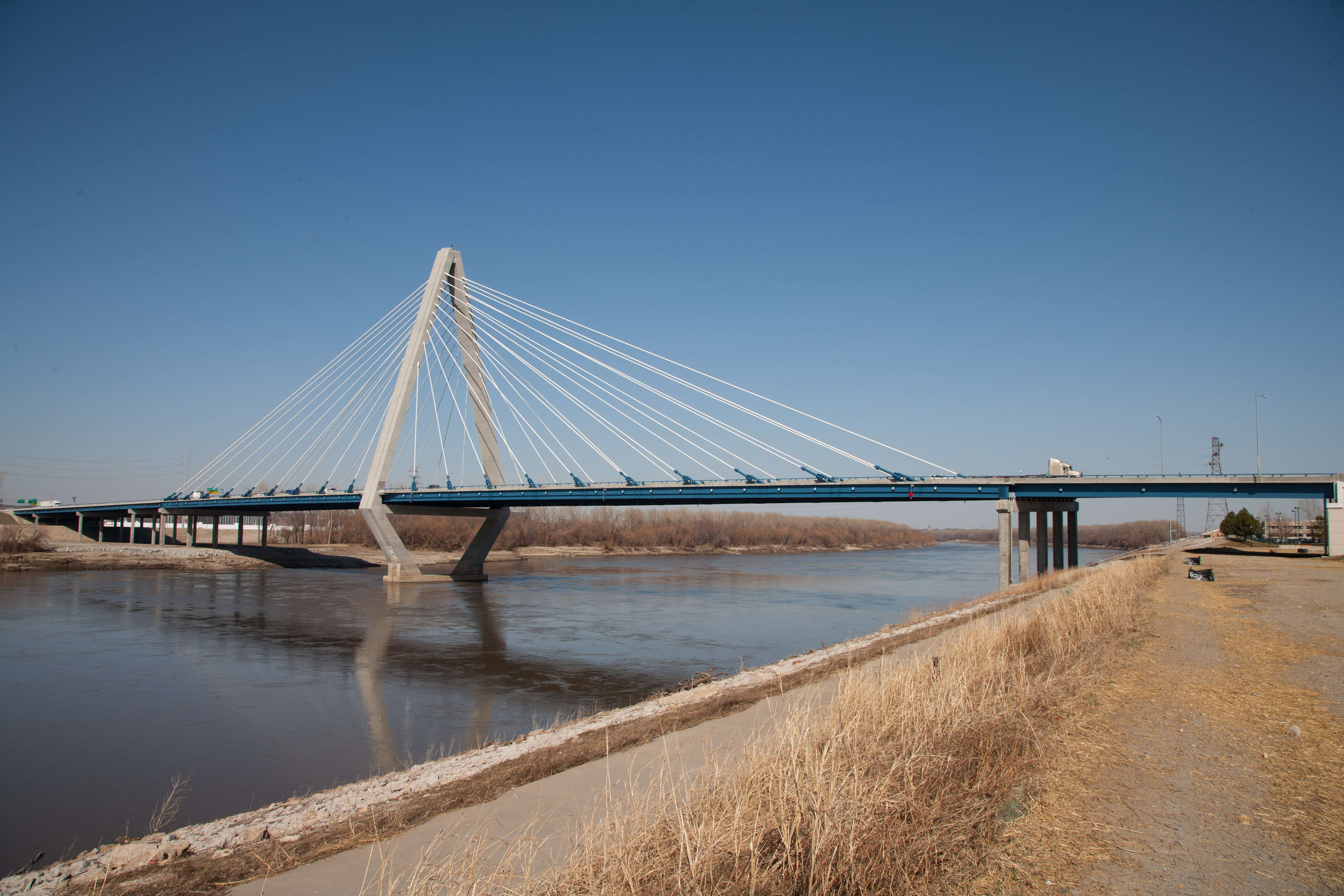 Christopher S. Bond Bridge, Kansas City